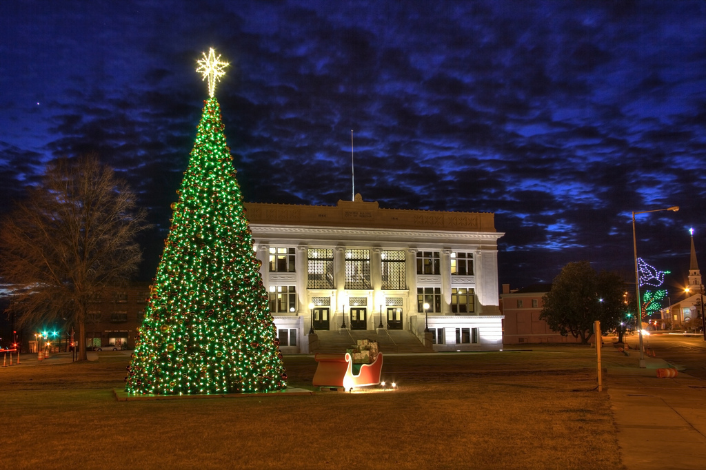 City Hall in Meridian, Mississippi lit up for Christmas 2011